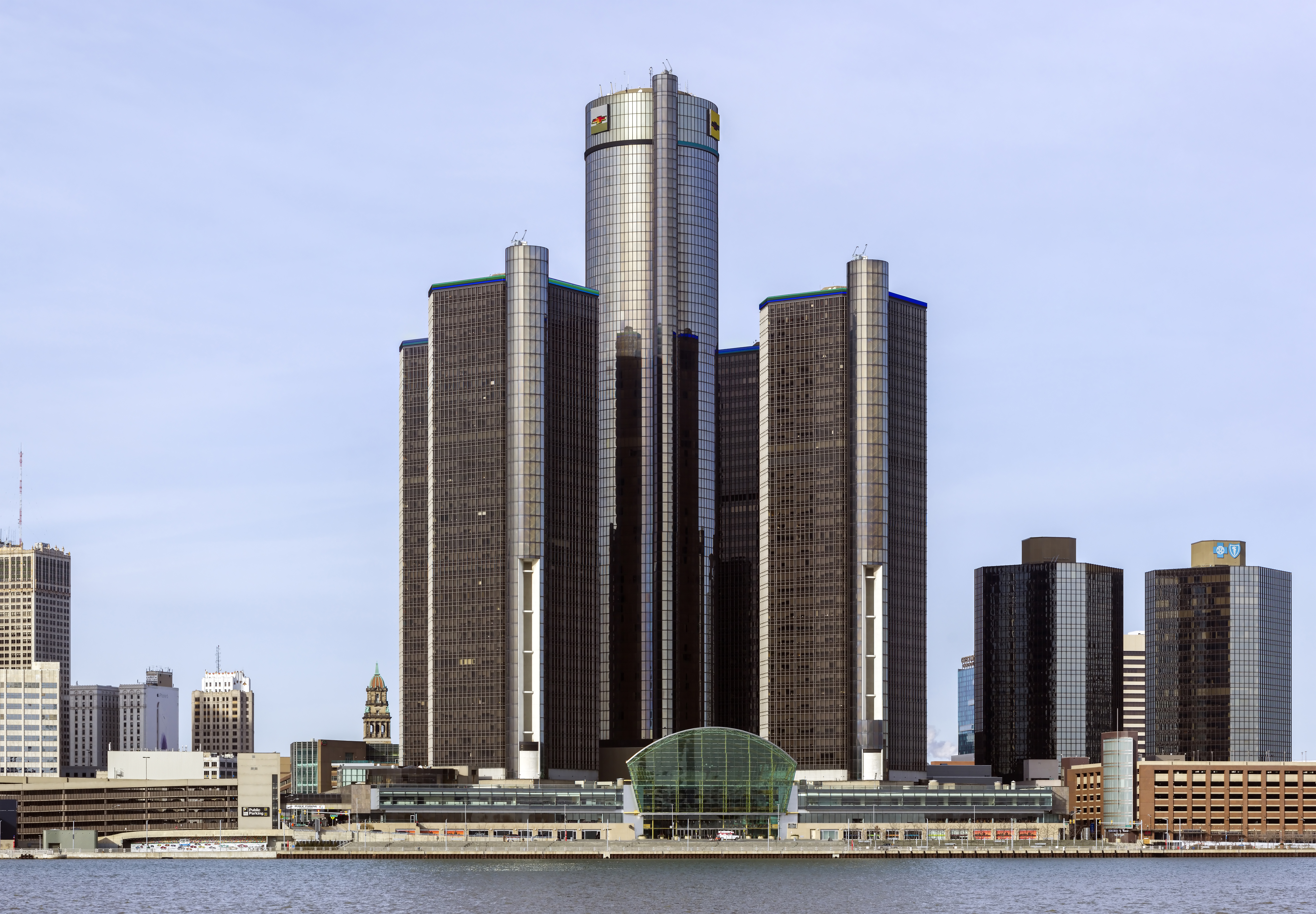 Renaissance Center, Detroit, Michigan from South 2014-12-07. Stitch of 42 images.